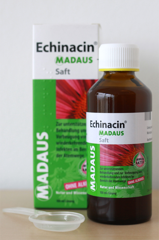 Echinacin: Juice made of Echinacea purpurea